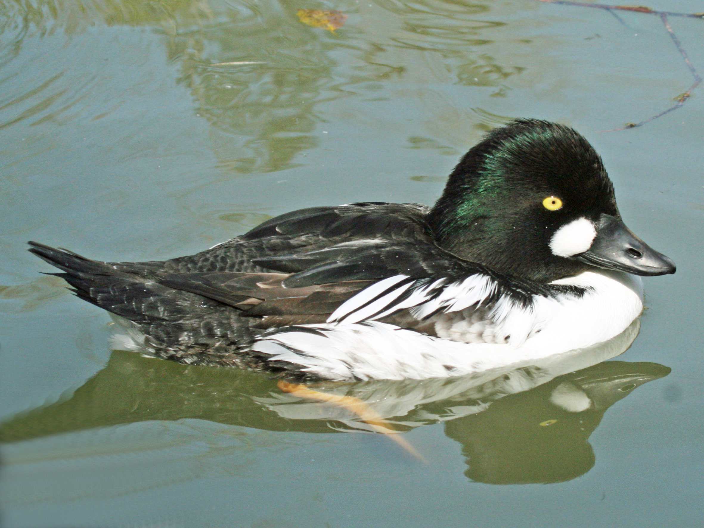 ♂ Common Goldeneye (Bucephala clangula) at Sylvan Heights Waterfowl Park in Scotland Neck, North Carolina.